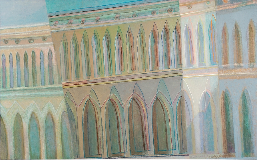 "Discontinue series", painting, oil on canvas, 1991. Nevenka Rajković (1949-2005), Painter from Serbia